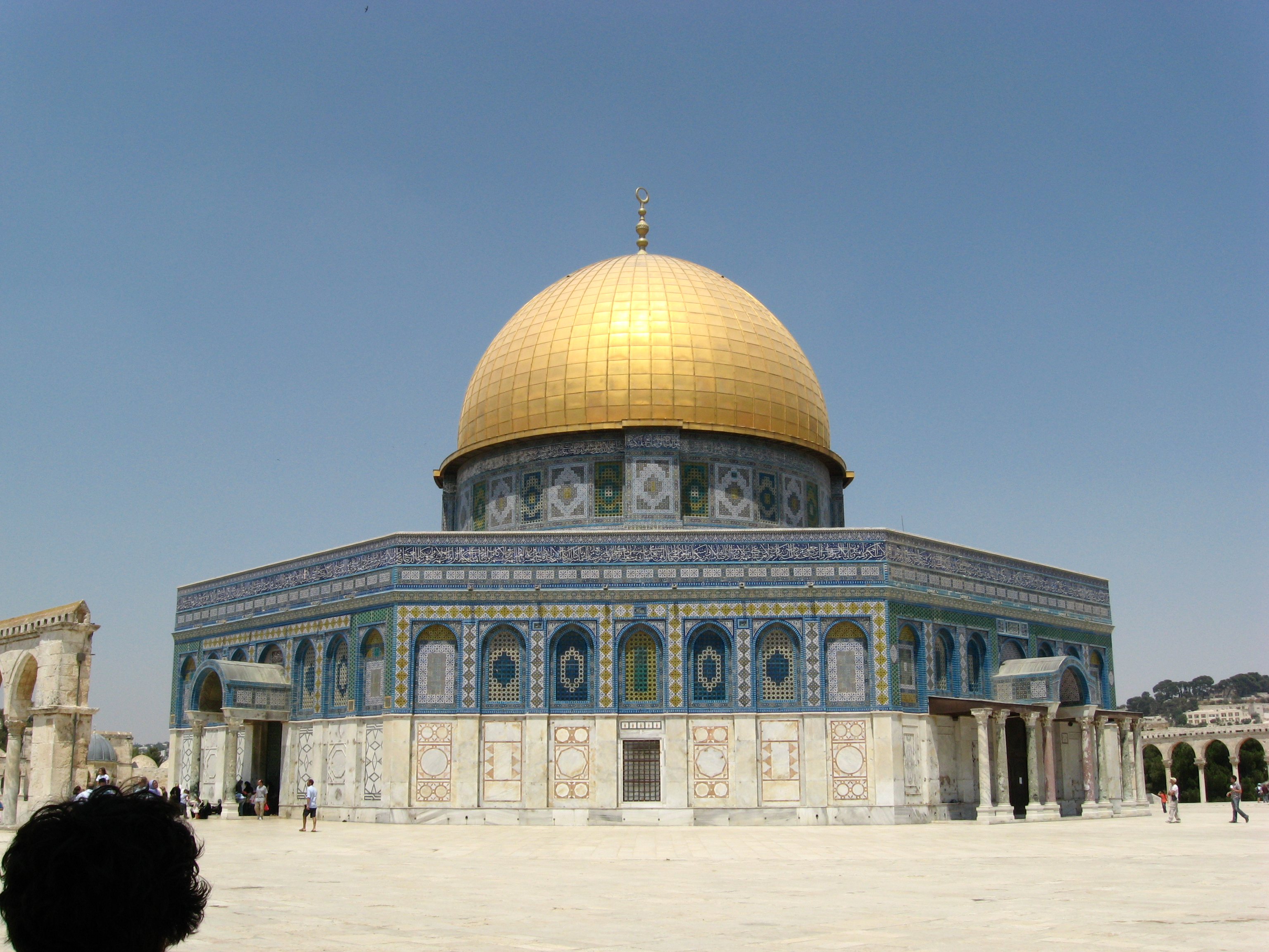 The Dome of the Rock on the Temple Mount